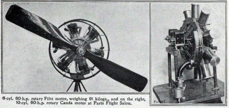 6o HP Aero radial engines from 1910: At left 6 cylinder Filtz, at right 10 cylinder Canda. Both were shown at that year's Paris flight show. Filtz was a French engine builder and small car manufacturer in Neuilly-sur-Seine.